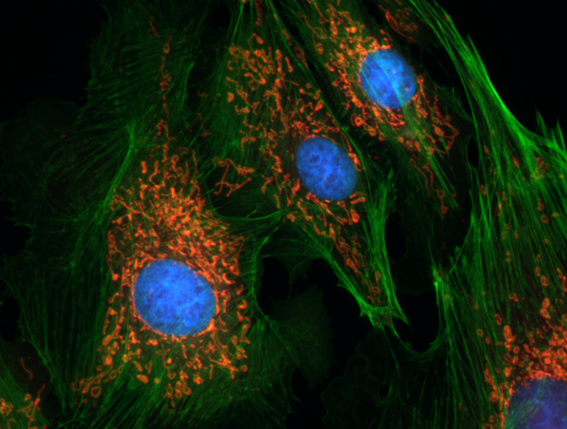 Bovine Pulmonary Artery Endothelial Cells Fluorescent Image. Nuclei are shown in blue, actin in green, and mitochondria in red.